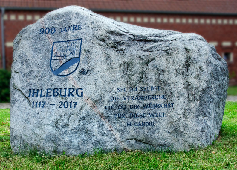 Memorial stone 900 years Ihleburg, citation: Mohandas Karamchand Gandhi